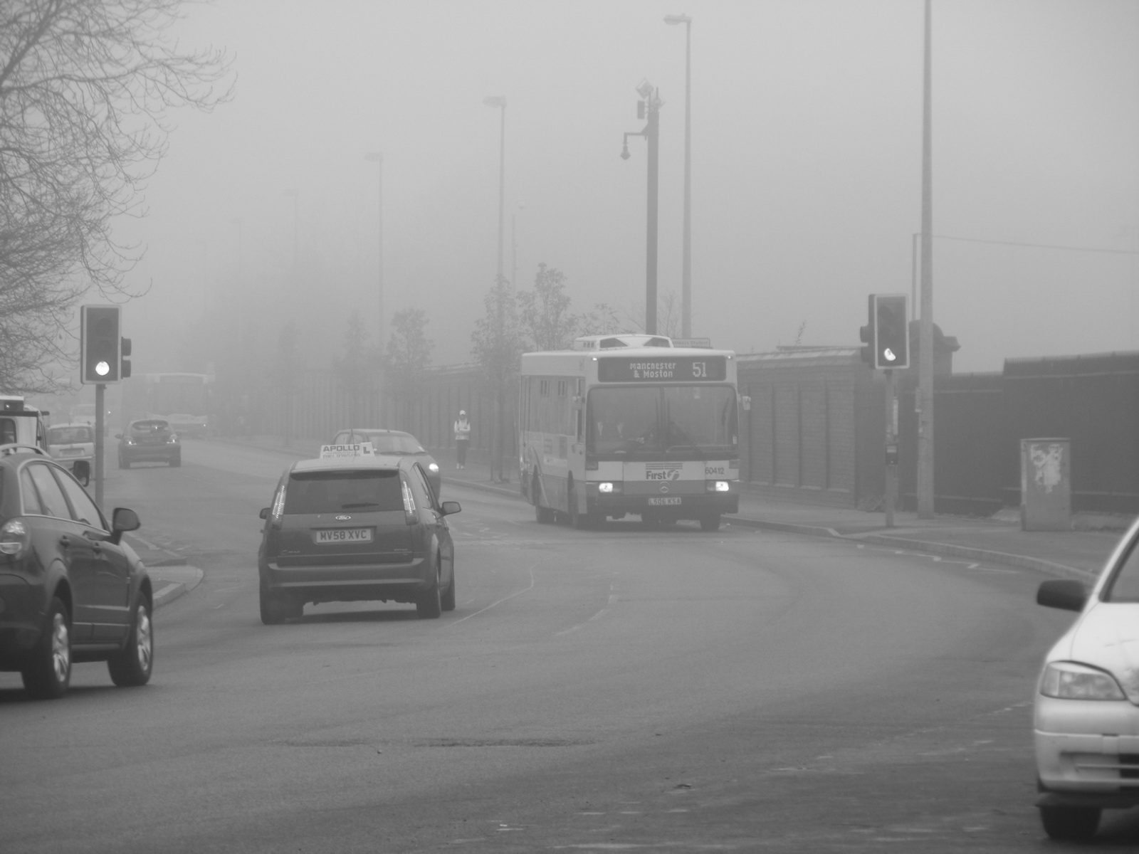 Saturday, 29th November 2008 saw a fog cover quite a lot of Greater Manchester. Given the natural greyness of the day, I thought it would be a good idea to switch to black and white mode to capture the mood of the day. See where this picture was taken. [?]